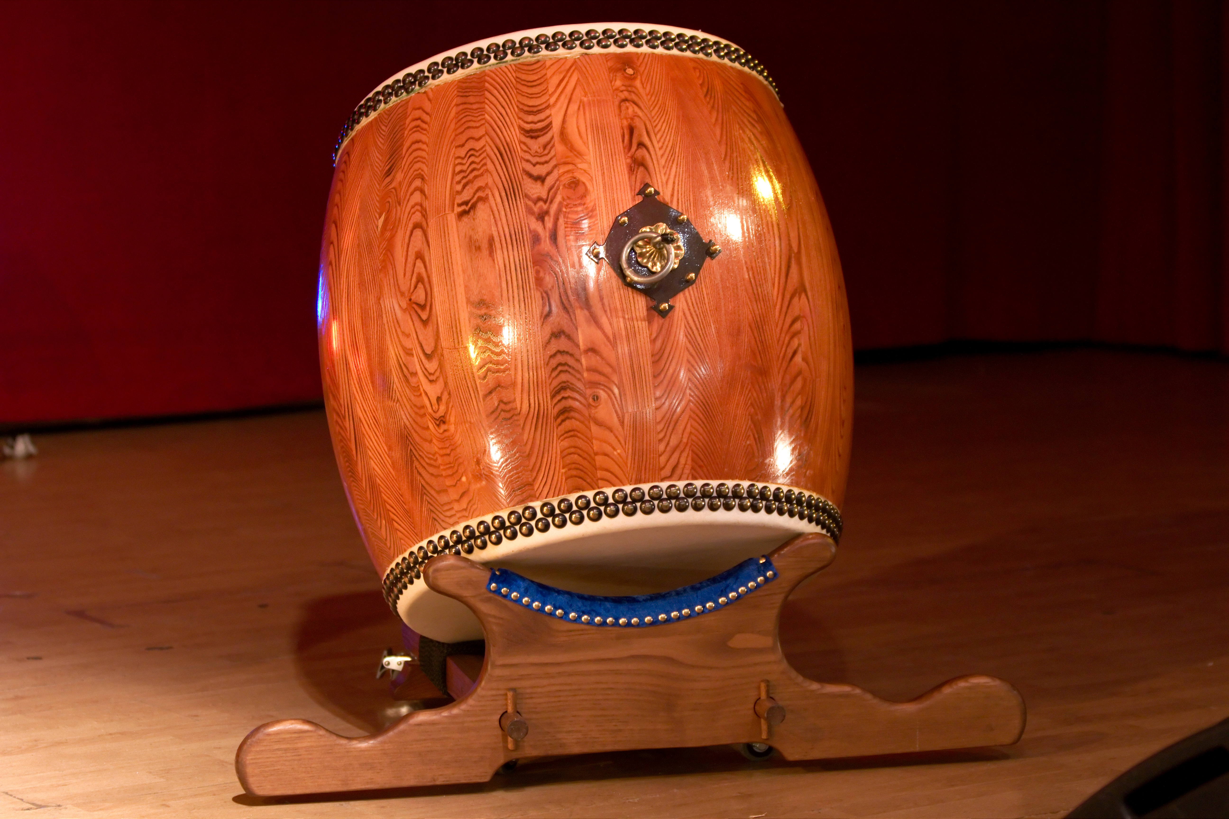 Heiwa Daiko live at Japan Matsuri 2010 (Montpellier, France).